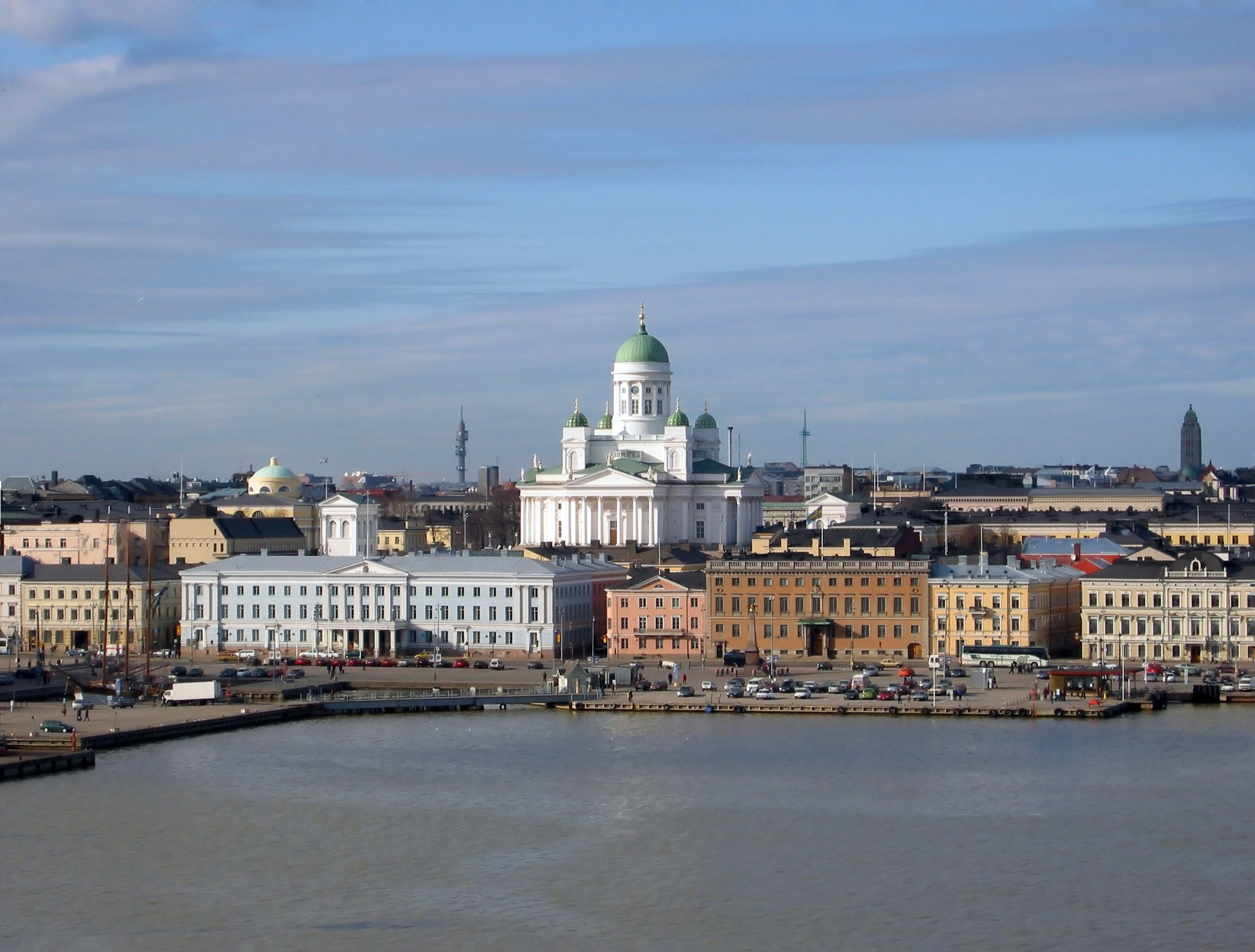 The Lutheran Cathedral in Helsinki, Finland, seen from the South Harbour in March, 2002.